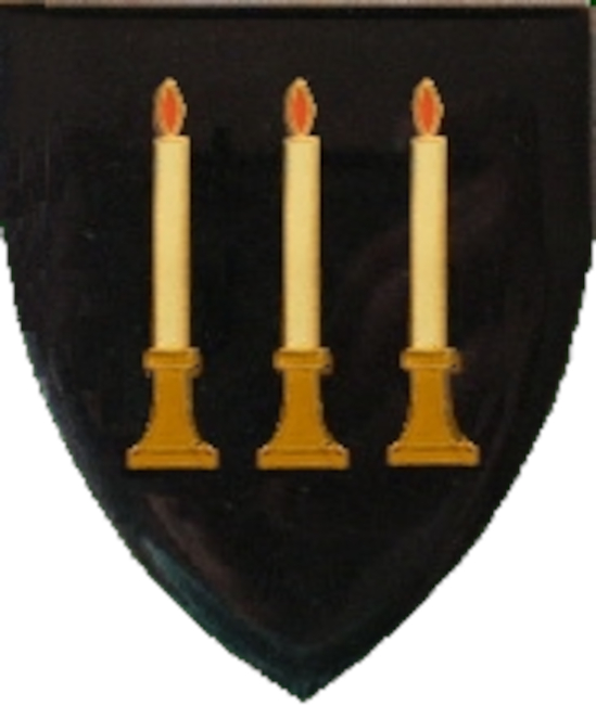 Commando Aliwal North shoulder flash